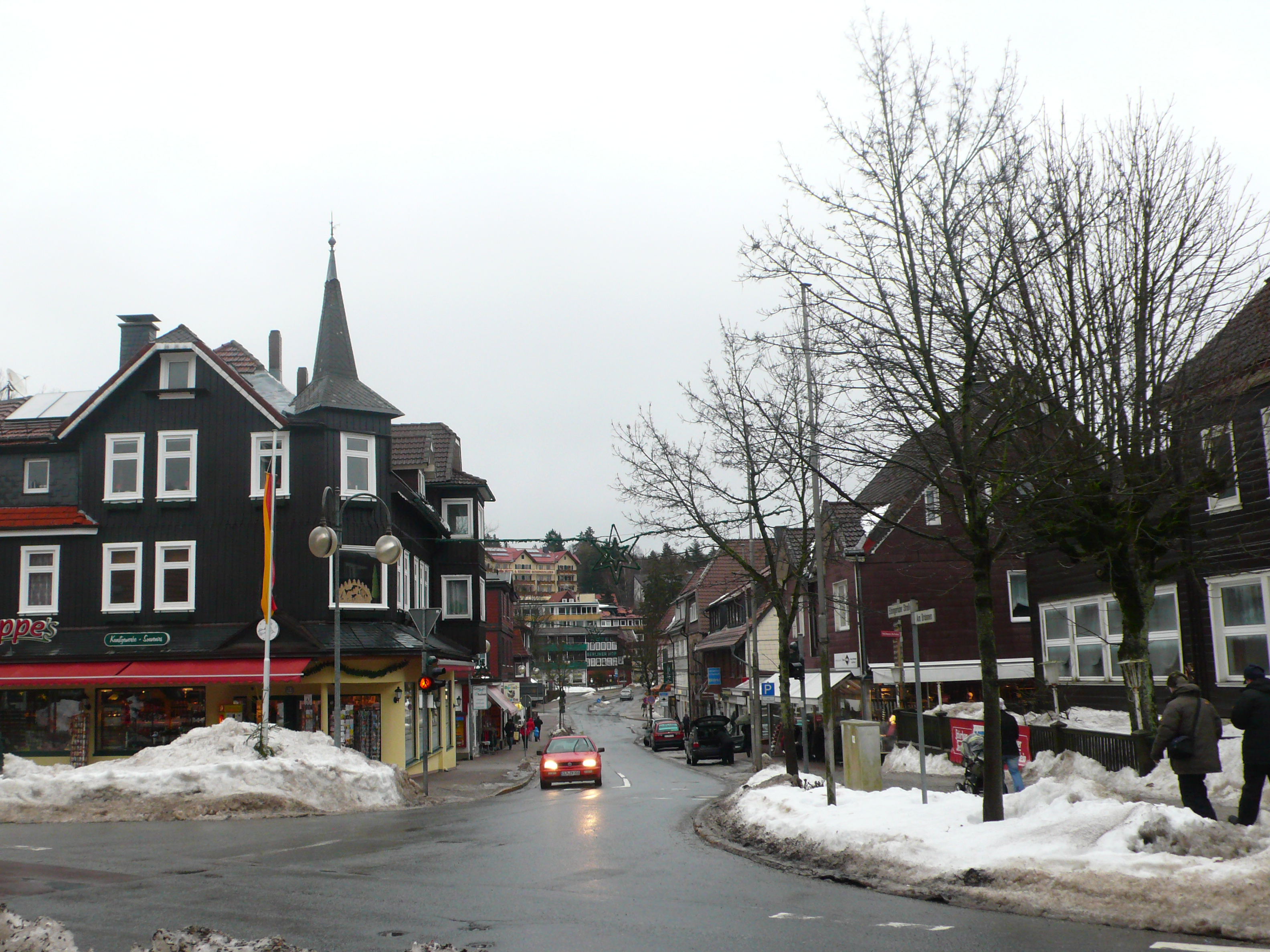 Streets of Braunlage